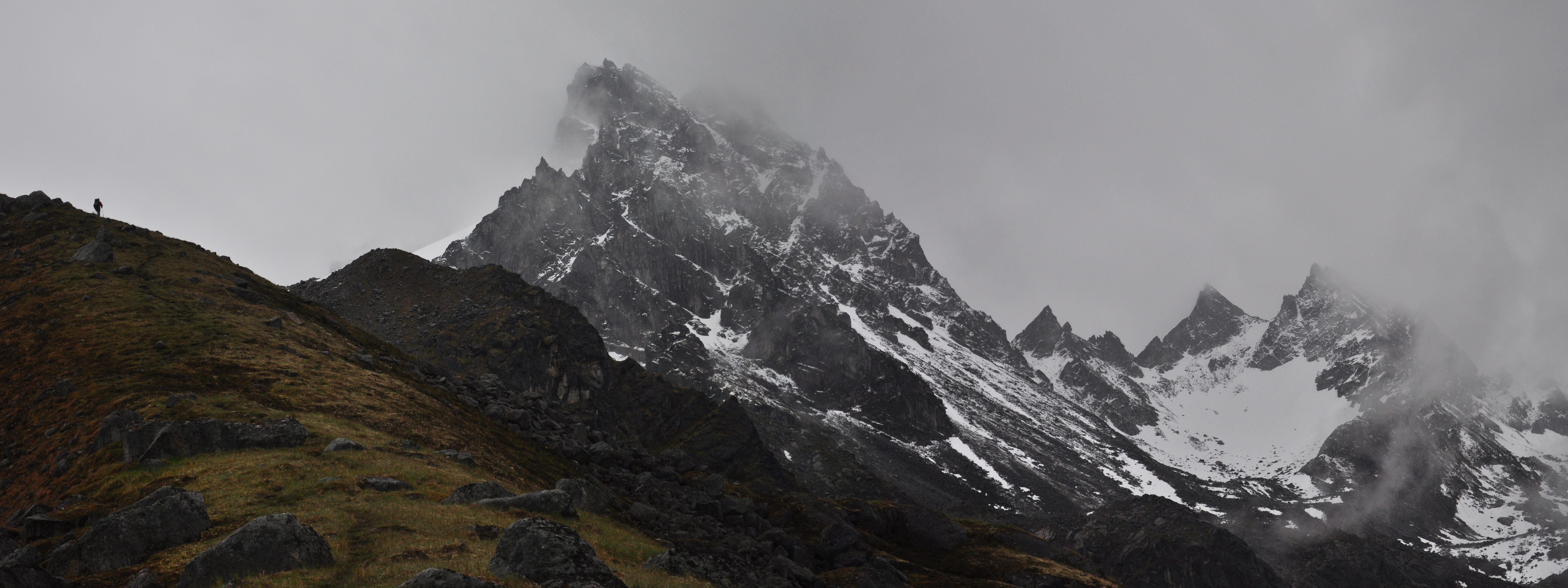 A hiker in the Talkeetna Mountains of Alaska, with Troublemint (left) and the Doublemint (right) peaks in the background